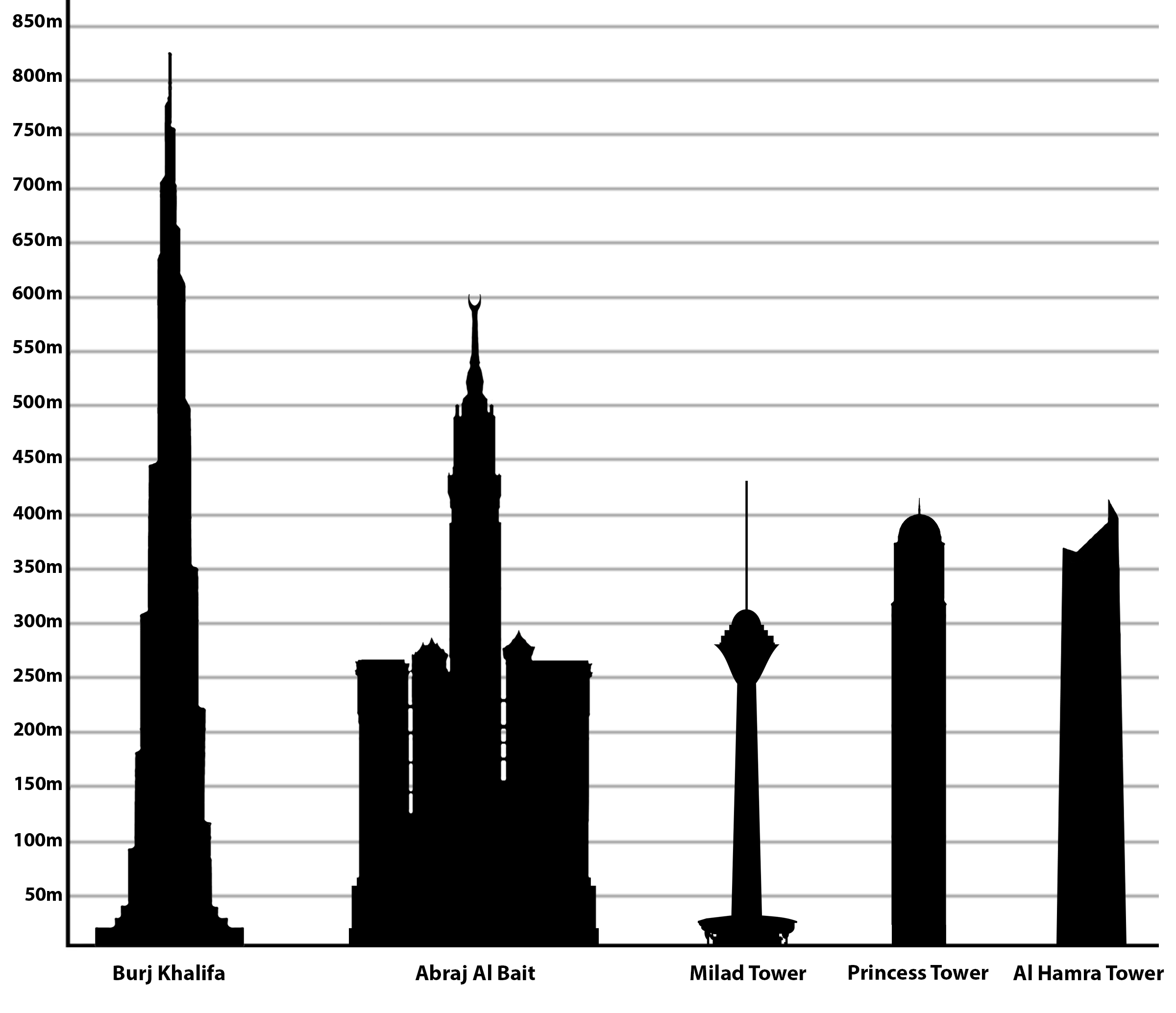 Tallest structures in Middle East; Used data from .